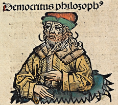 Woodcut from the Nuremberg Chronicle